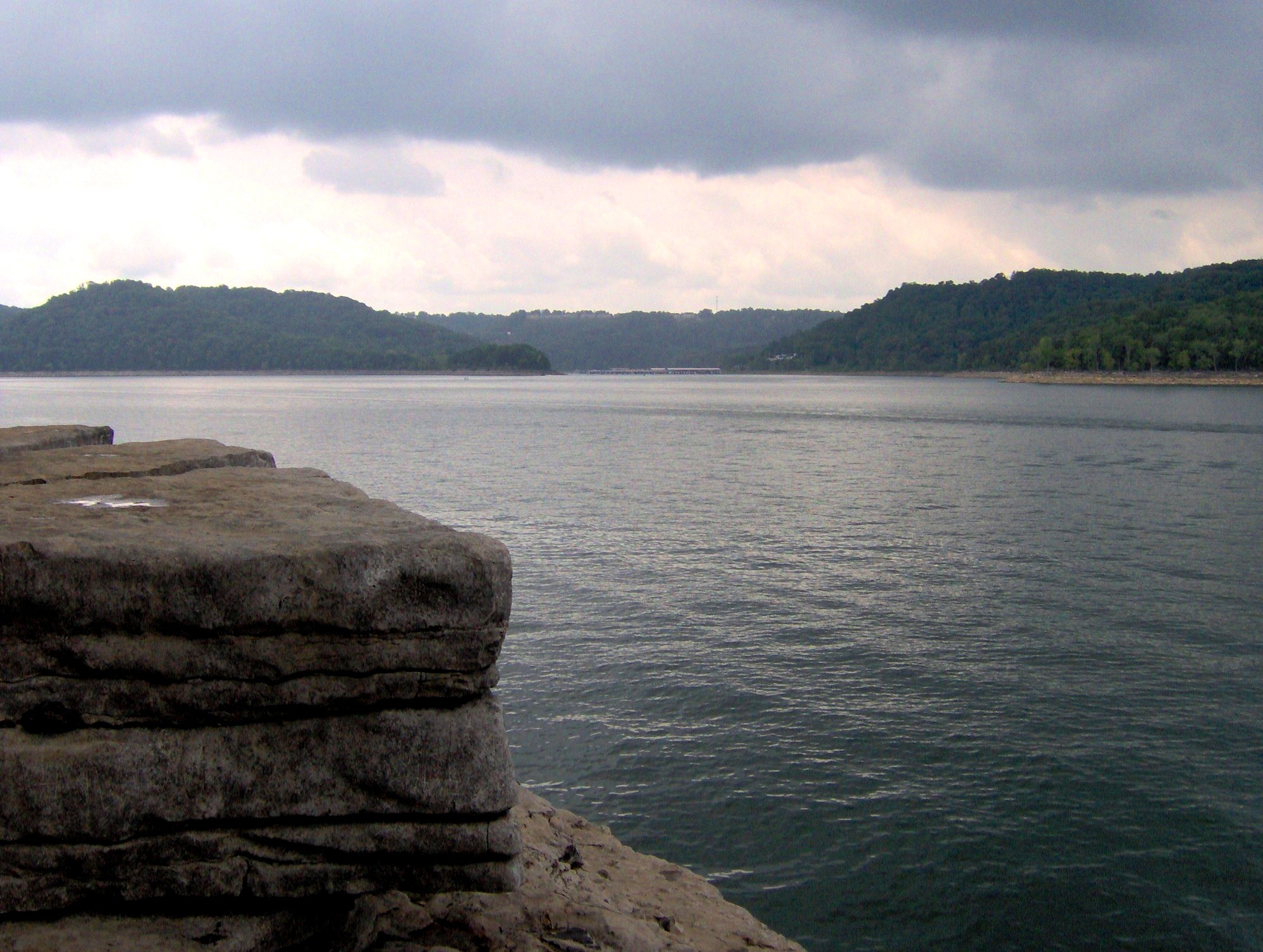 The Center Hill Lake impoundment of the Caney Fork River, just upstream from Center Hill Dam at Edgar Evins State Park in DeKalb County, Tennessee, in the southeastern United States. This view is from a limestone cliff near the primitive campground.